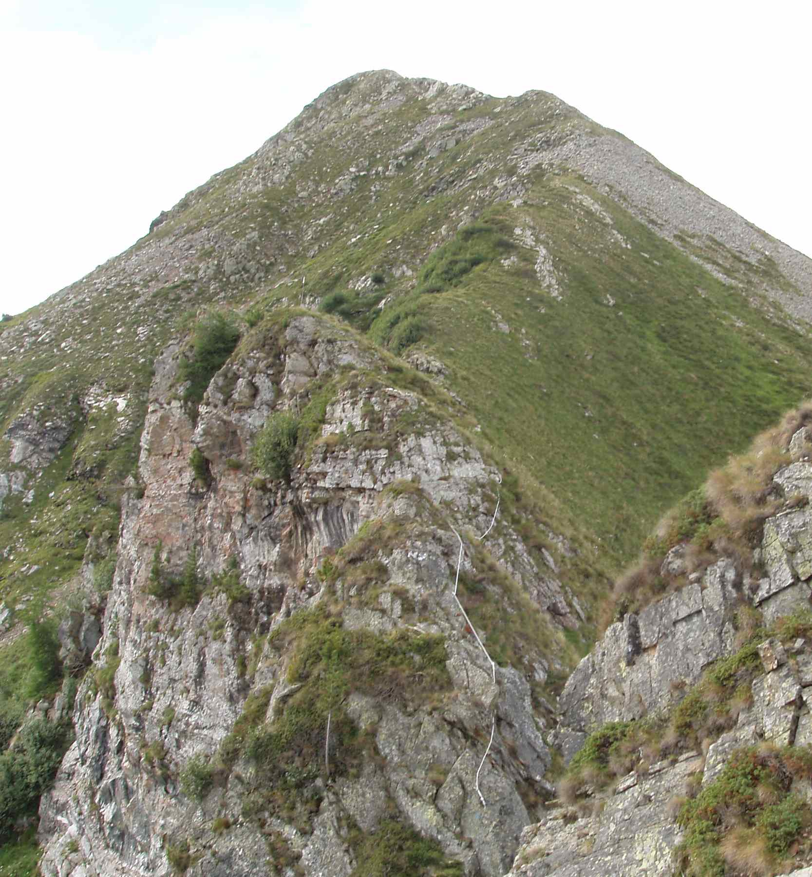 Mount Gran Gabe from its north-west ridge (Piedmont, Italy)